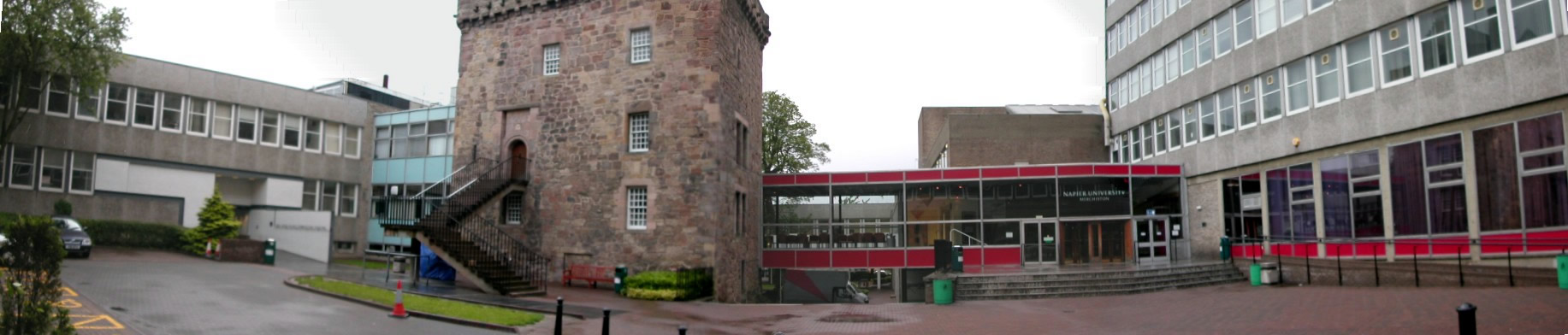 2004. Edinburgh Napier University, Merchiston campus, taken from south side.